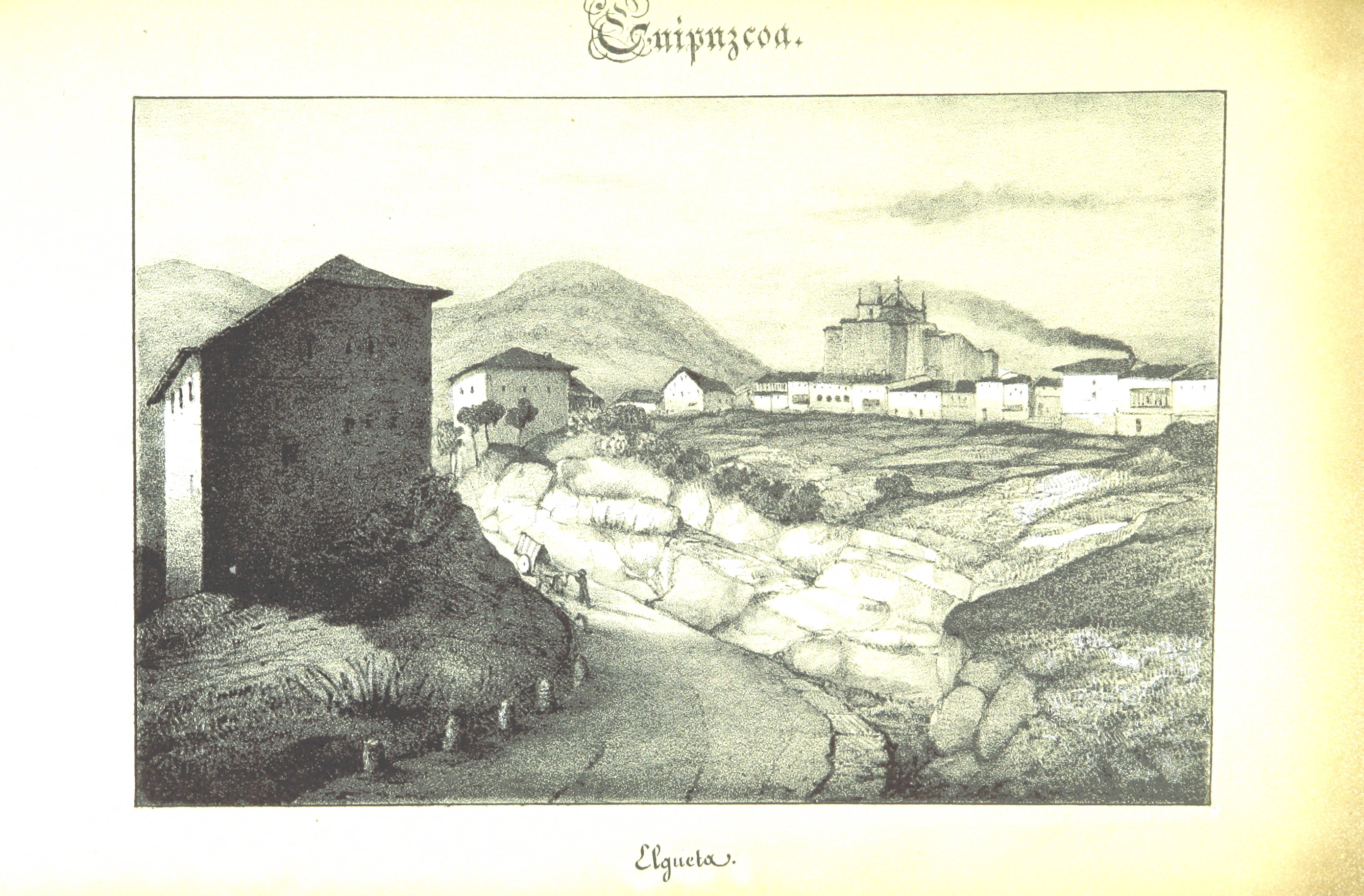 Image taken from: Title: "Revista pintoresca de las provincias Bascongadas. Edicion de lujo. Adornada con vistas ... por S. Lambla. Escrita por L. M. de E. y A. A. y H. Entrega 1-45" Author: E., L. M. de - and A. y H. (A.) Contributor: A. y H., A. Contributor: LAMBLA, Julio. Shelfmark: "British Library HMNTS 10161.f.16." Page: 473 Place of Publishing: Bilbao Date of Publishing: 1844 Issuance: monographic Identifier: 001024664 Explore: Find this item in the British Library catalogue, 'Explore'. Download the PDF for this book (volume: 0) Image found on book scan 473 (NB not necessarily a page number) Download the OCR-derived text for this volume: (plain text) or (json) Click here to see all the illustrations in this book and click here to browse other illustrations published in books in the same year. Order a higher quality version from here.